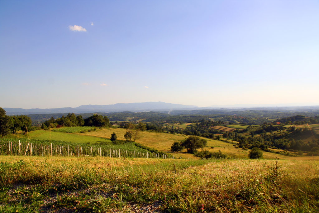 Typical Zagorje panorama. Taken near Belec.